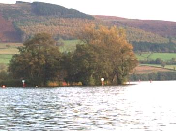 Author: Shearluck Summary: A view of the Crannog on Llangorse Lake, Powis, Wales Licensing: I am the photographer of this photo, it is not under any copyright restrictions and there is therefore no conflict of licence, this is the second time I have had to upload it. Please do not delete it again. There is NO reason for deletion as it is in use on a wikipedia article.